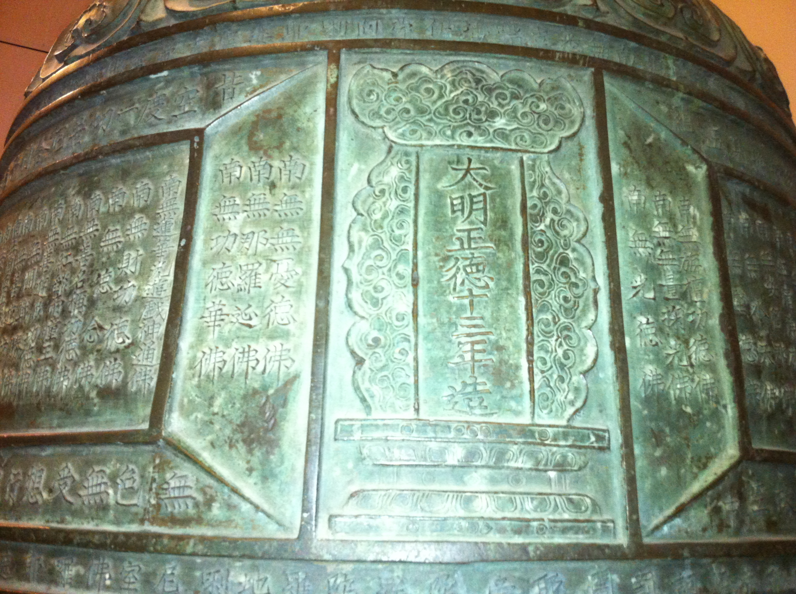 Text showing the Temple Bell was made by 13th Year Mingde